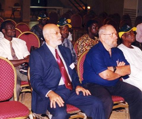 Dr Leshem in the opening class in Nigeria.